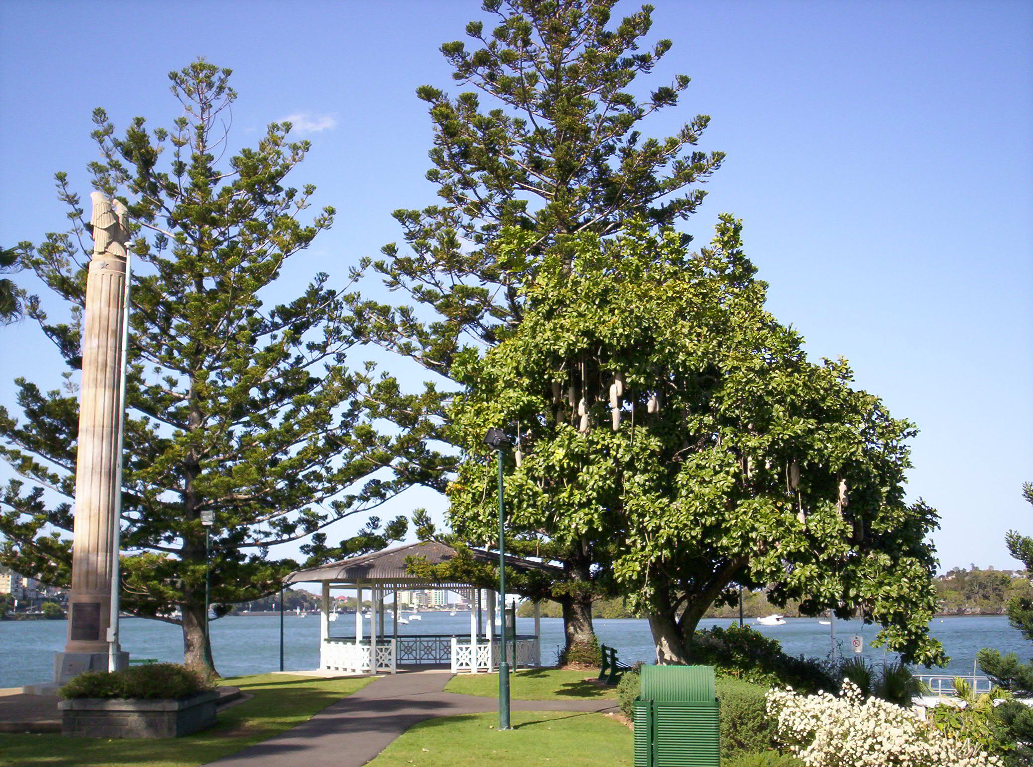 Monument to United States service men and women, in the ground of Newstead House